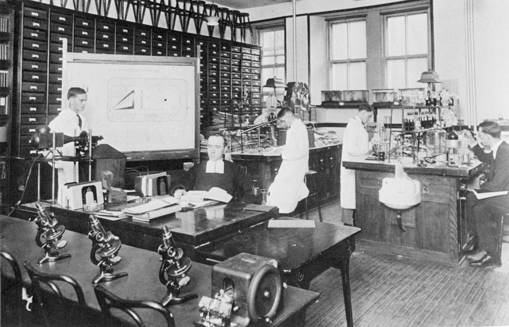 Marie-Victorin (born Conrad Kirouac) in his laboratory at the Faculty of Science of Laval University's branch in Montreal, Canada